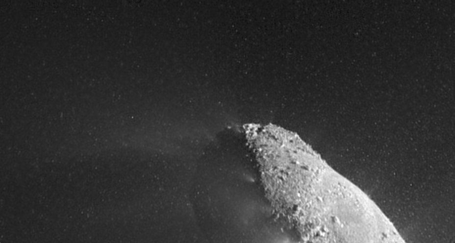 This image from the High-Resolution Instrument on NASA's EPOXI mission spacecraft shows part of the nucleus of comet Hartley 2. The sun is illuminating the nucleus from the right. A distinct cloud of individual particles is visible. This image was obtained on Nov. 4, 2010, the day the EPOXI mission spacecraft made its closest approach to the comet.